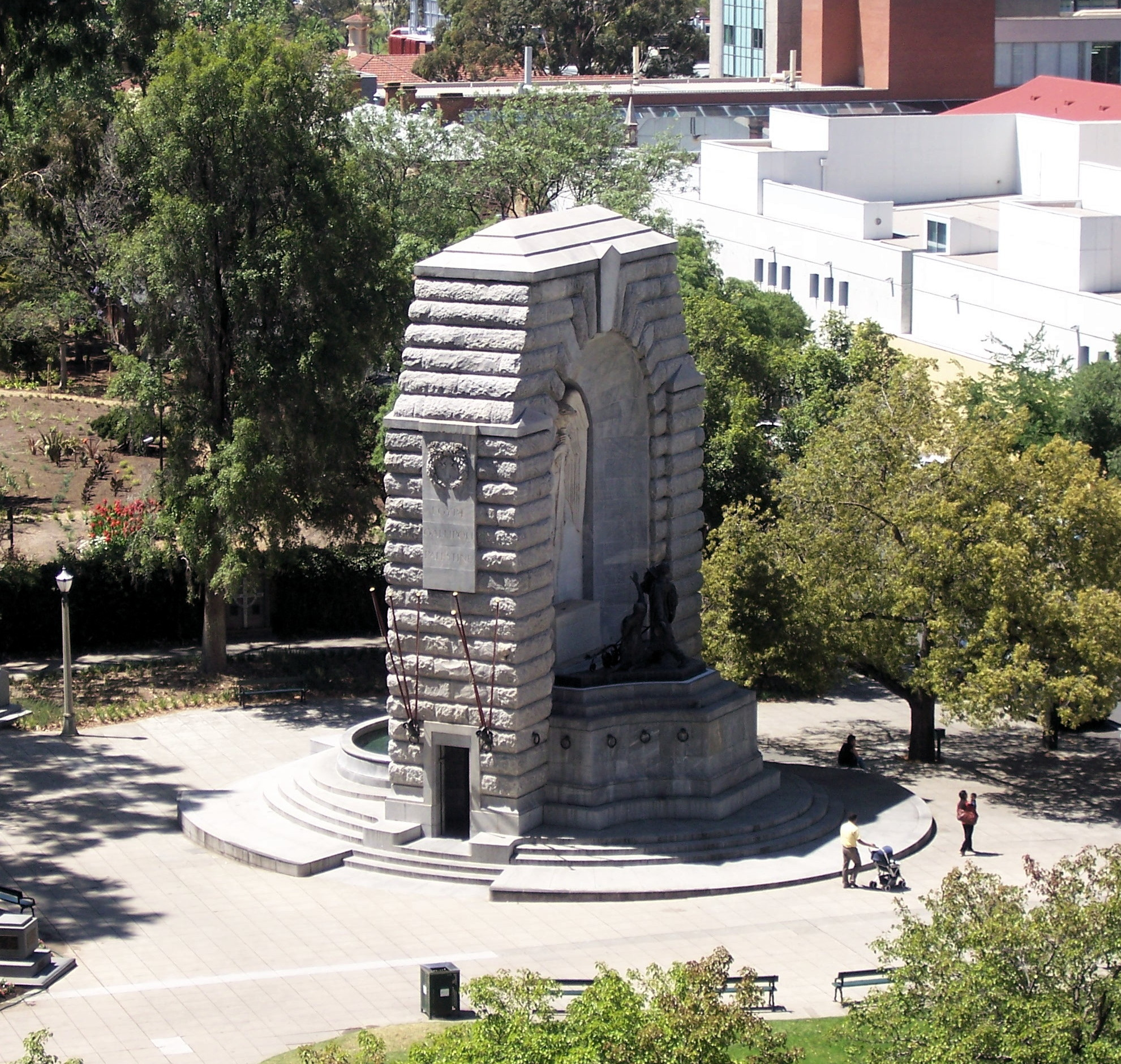 View of the War Memorial on North Terrace in Adelaide